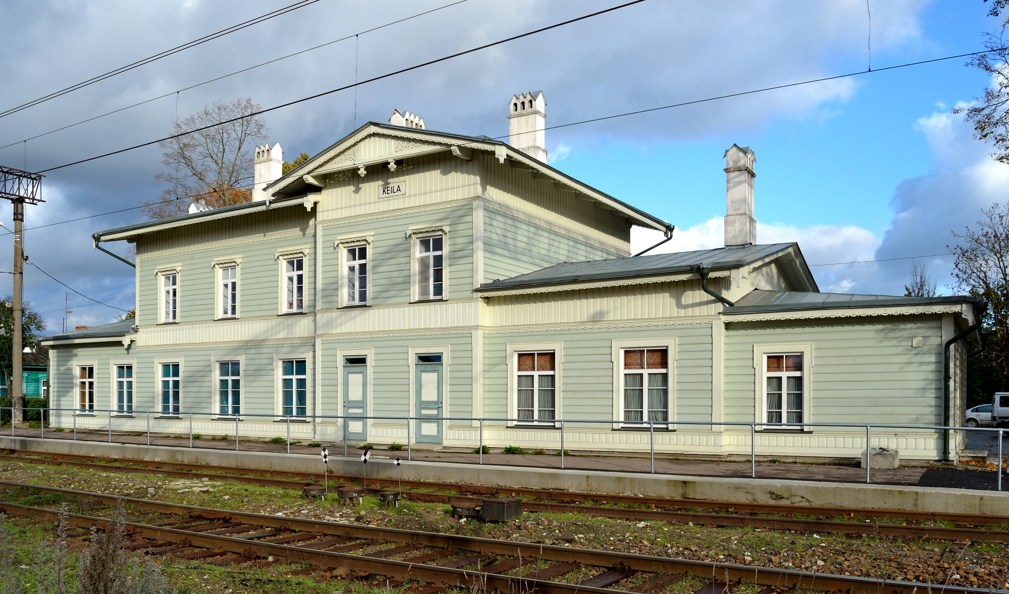 Keila station building This photograph was taken with a Nikon D3100